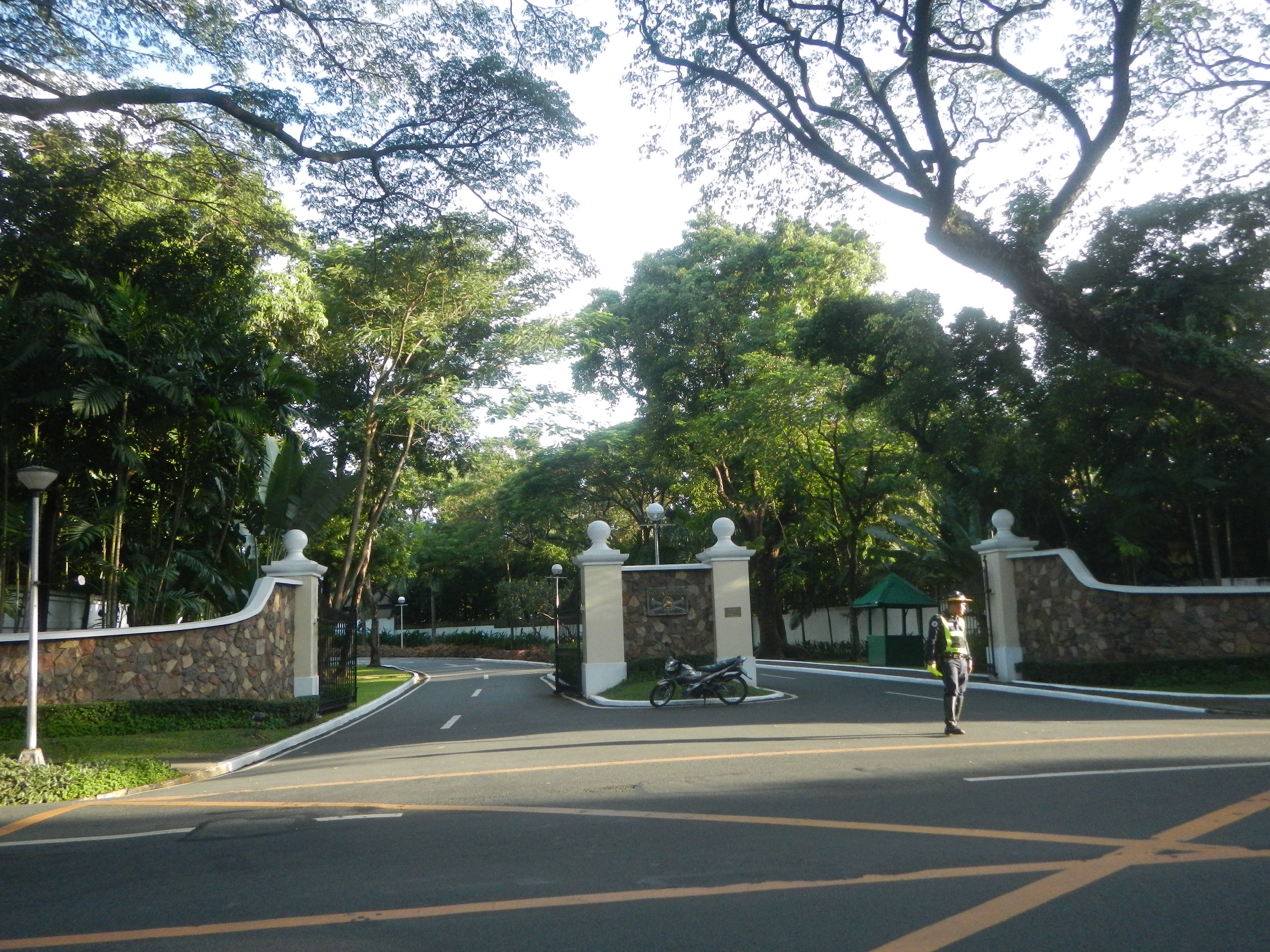 McKinley Road Forbes Park, Makati City (Note: Judge Florentino Floro, the owner, to repeat, Donor Florentino Floro of all these photos hereby donate gratuitously, freely and unconditionally all these photos to and for Wikimedia Commons, exclusively, for public use of the public domain, and again without any condition whatsoever).